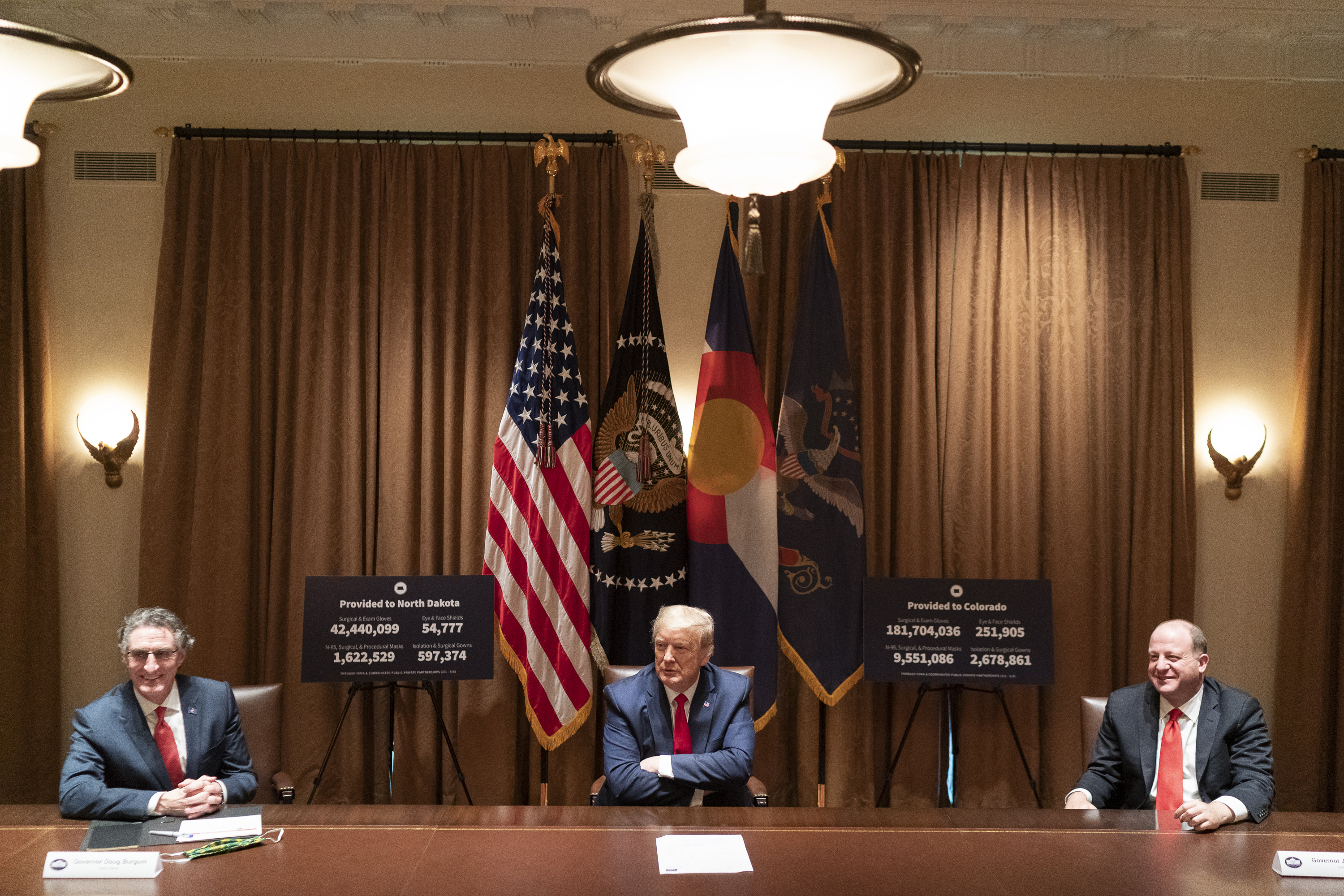 President Donald J. Trump meets with North Dakota Governor Doug Burgum, left, and Colorado Governor Jared Polis, right, Wednesday, May 13, 2020, in the Cabinet Room of the White House. (Official White House Photo by Shealah Craighead)